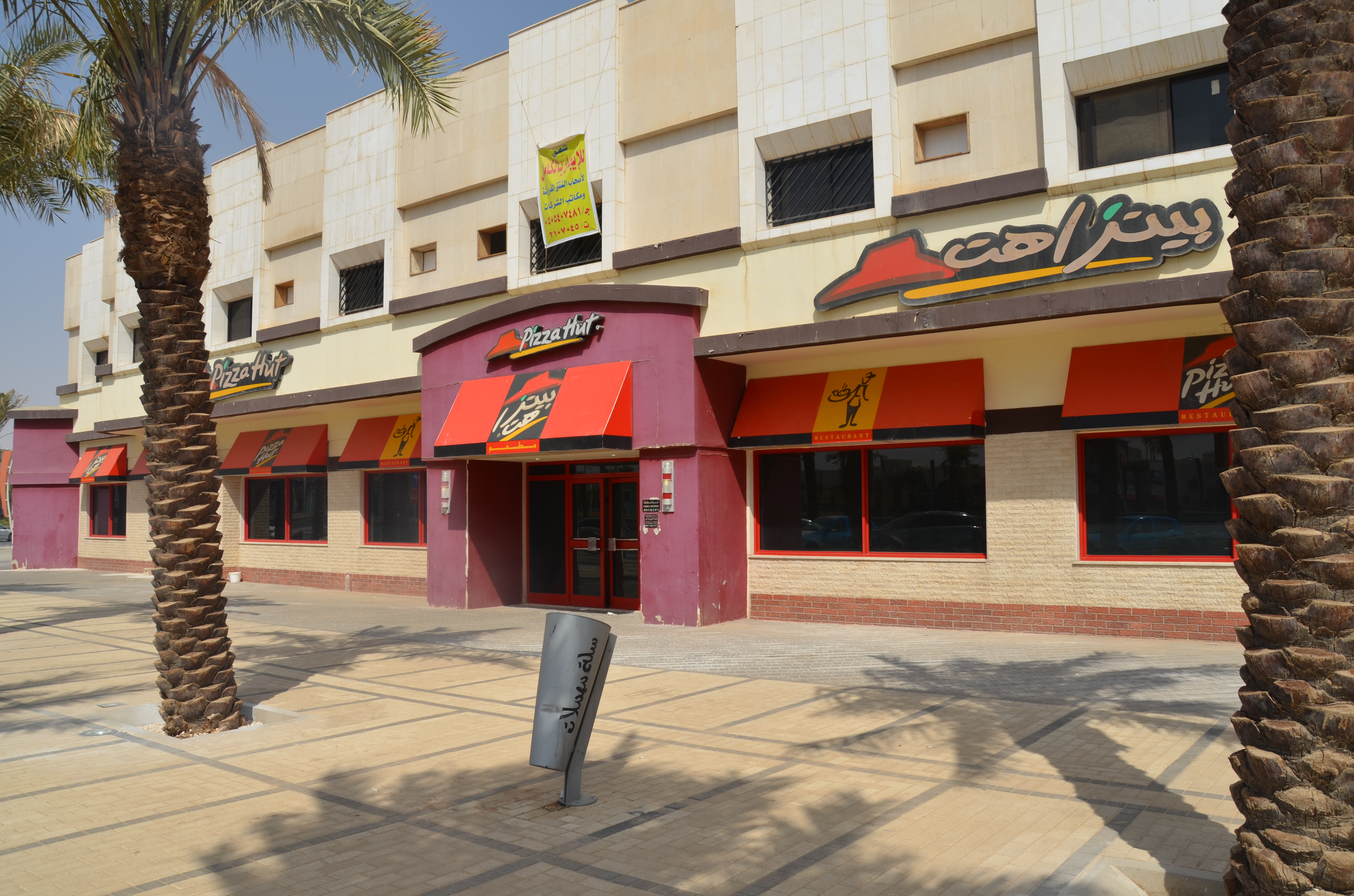 Pizza Hut Restaurant Riyadh